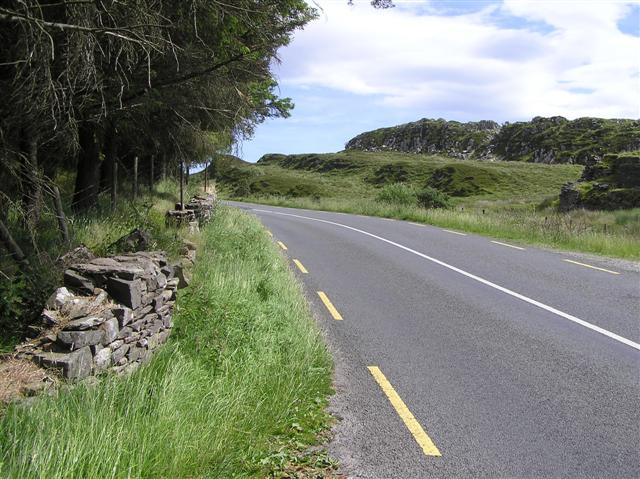 R244 at Ballinglough Heading NNE